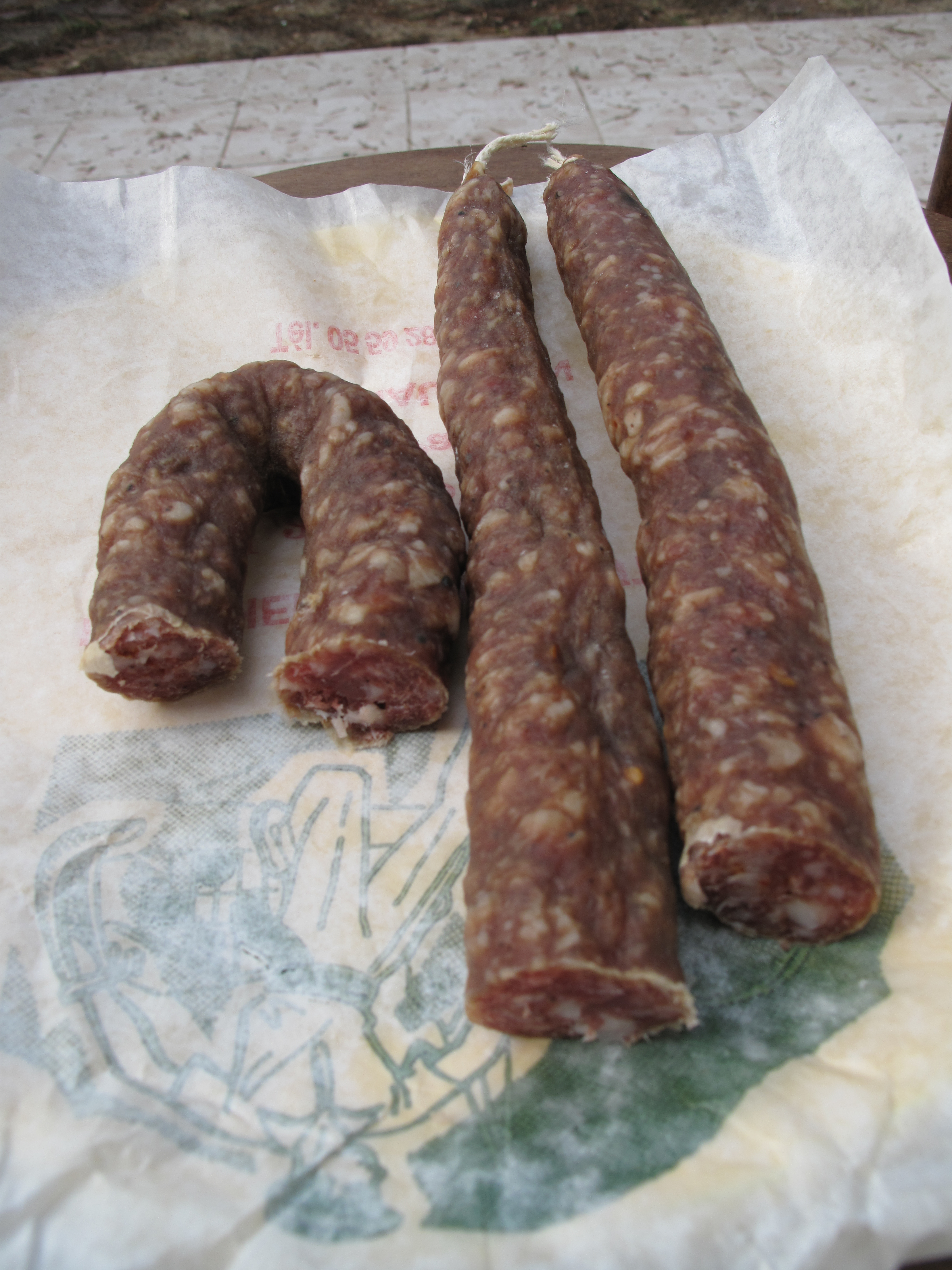 Sausage named 'lukinke' (or 'luquinque'), speciality of the Basque country (France and Spain)